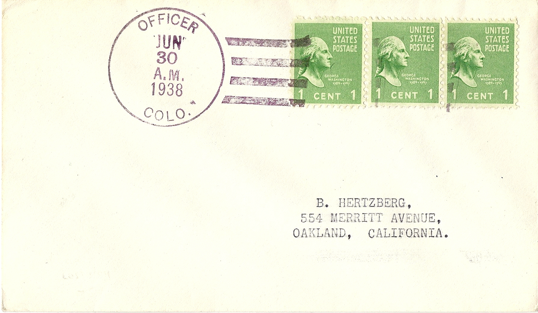 A philatelic cover postmarked Officer, Colorado on the last day of service. Officer was in Las Animas County, Colorado. According to the American Philatelic Society, from which this cover was obtained, mail from this discontinued post office was handled subsequently at Villagreen, Colorado, now a discontinued post office itself.